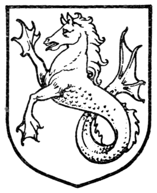 Fig. 364.—Sea-horse.